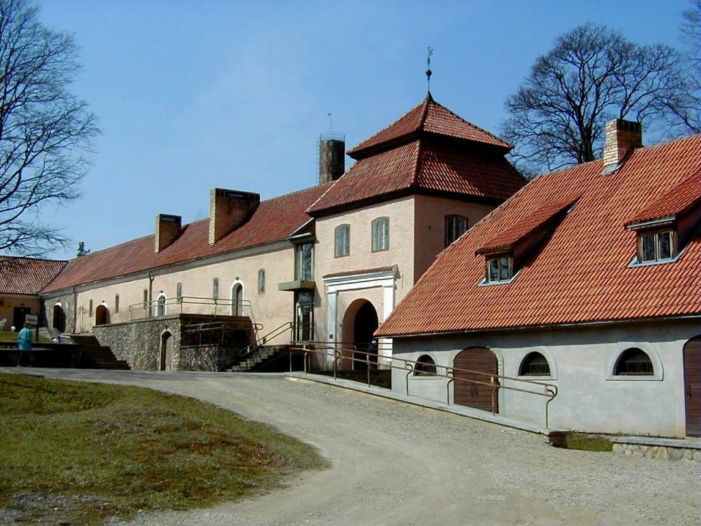 Portion of Šlokenbeka estate complex in Milzkalne